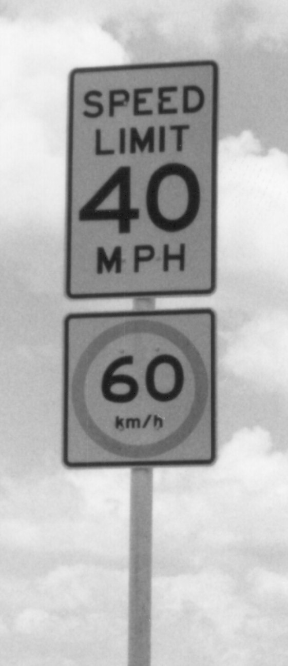 A dual miles per hour and kilometers per hour sign, located along southbound Coral Ridge Drive and the Sawgrass Expressway in May 1992. This sign is no longer extant, as many of the kilometer signs were removed from use in the United States. This sign was likely erected in 1986, when the Sawgrass Expressway was opened to traffic. Photo taken with a Canon AE-1 camera, using a 55mm FD lens, and Kodak Tri-X film.